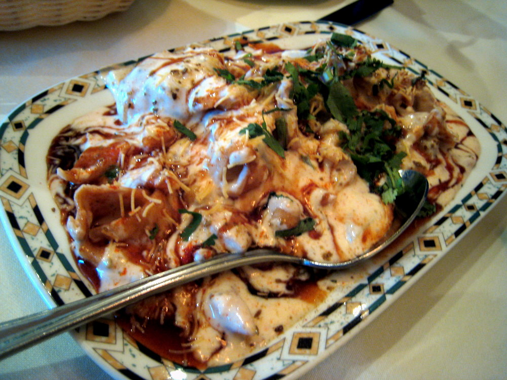 Get the full scoop